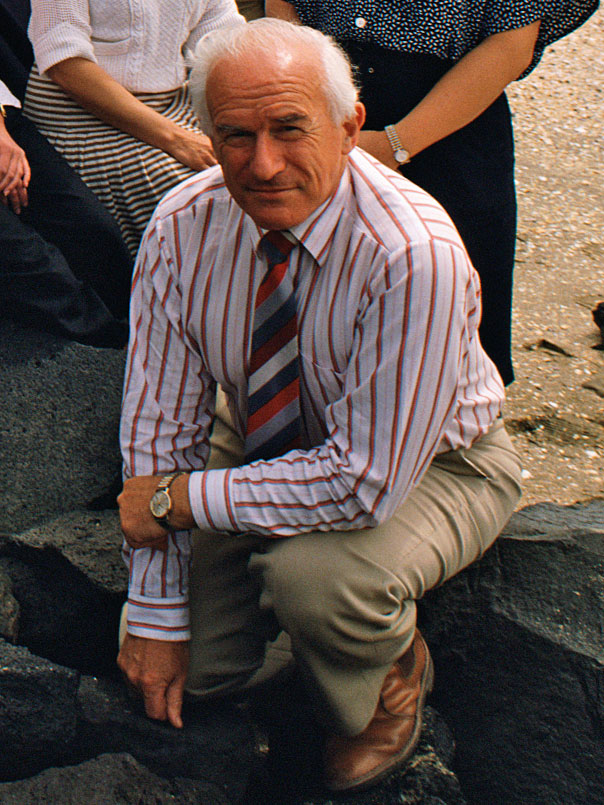 A photo of Pat Booth taken by Bauer Media in December 1988 when he was the assistant editor of North & South magazine.